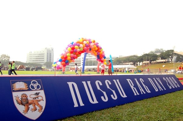 A scene from the NUSSU Rag and Flag 2009.